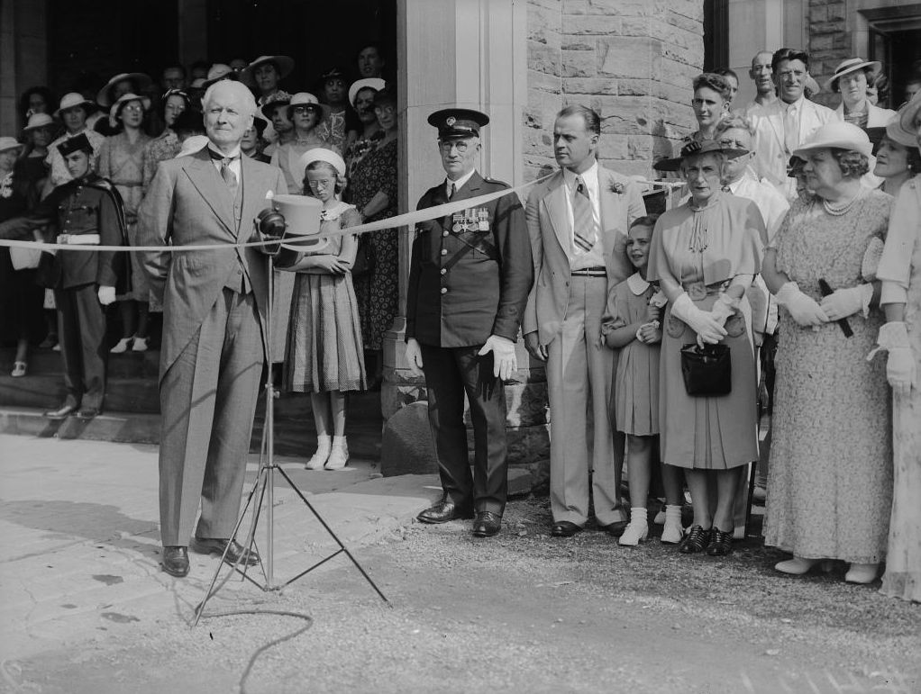 Photographs : Lieutenant-Governor Dr. Bruce opens Casa Loma to the public; 1 Austin Terrace, Toronto, Ontario, Canada; circa 1937; Fonds 1244, Item 4121.